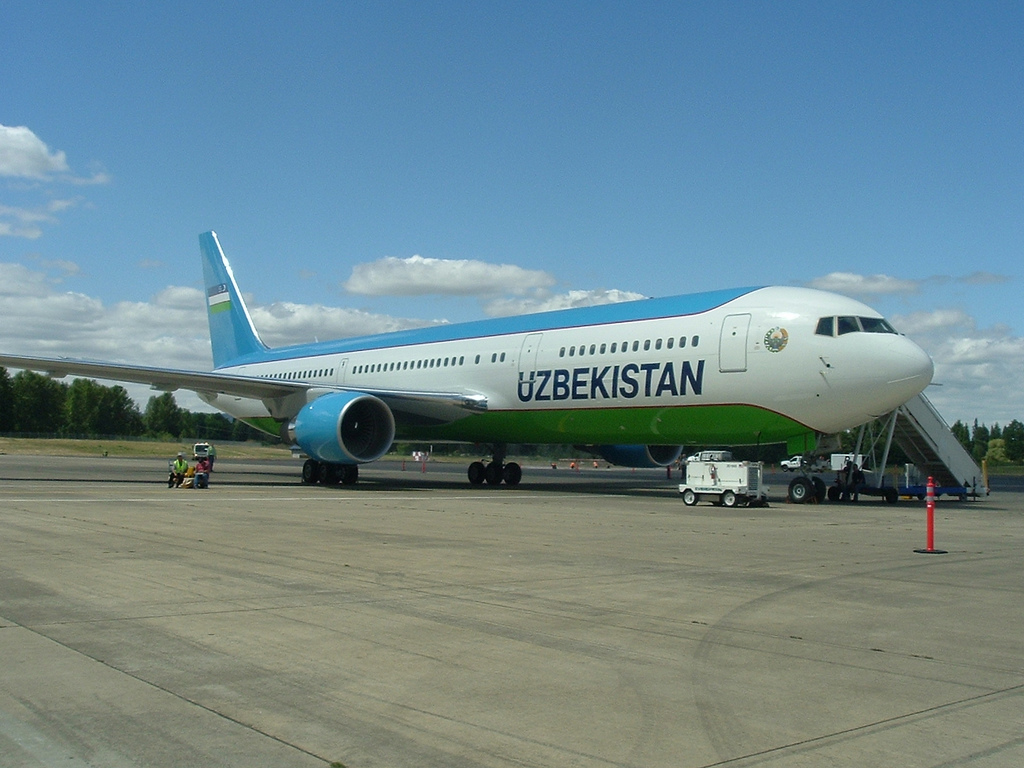 Boeing 767-300ER - Uzbekistan